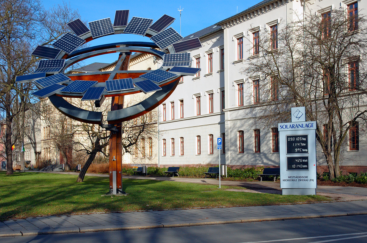 This image shows the solar panel installation in Zwickau (Saxony, Germany) in front of the Zwickau University of Applied Sciences.